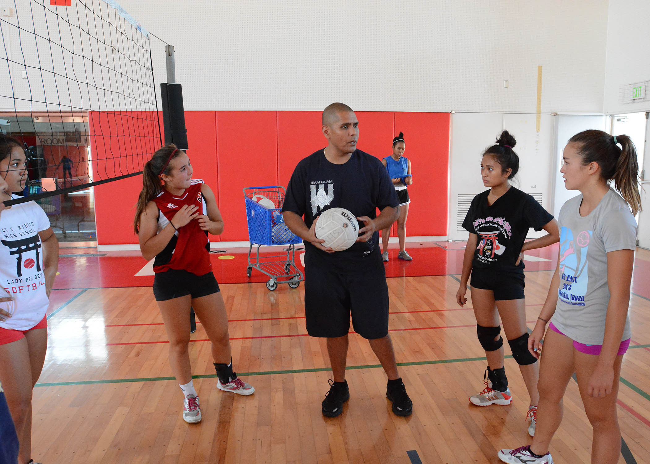 Tony San Nicoles, center, varsity head volleyball coach for the Red Devils of Nile C. Kinnick High School, discusses offensive and defensive tactics with players during practice in the Nile C. Kinnick gym at Commander Fleet Activities Yokosuka, Japan. Aug. 27, 2013.